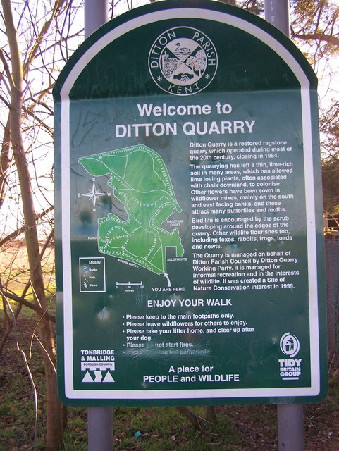 Ditton Quarry Sign About Nature Reserve. Beside this is another sign with bi-monthly what to see notice-poster.